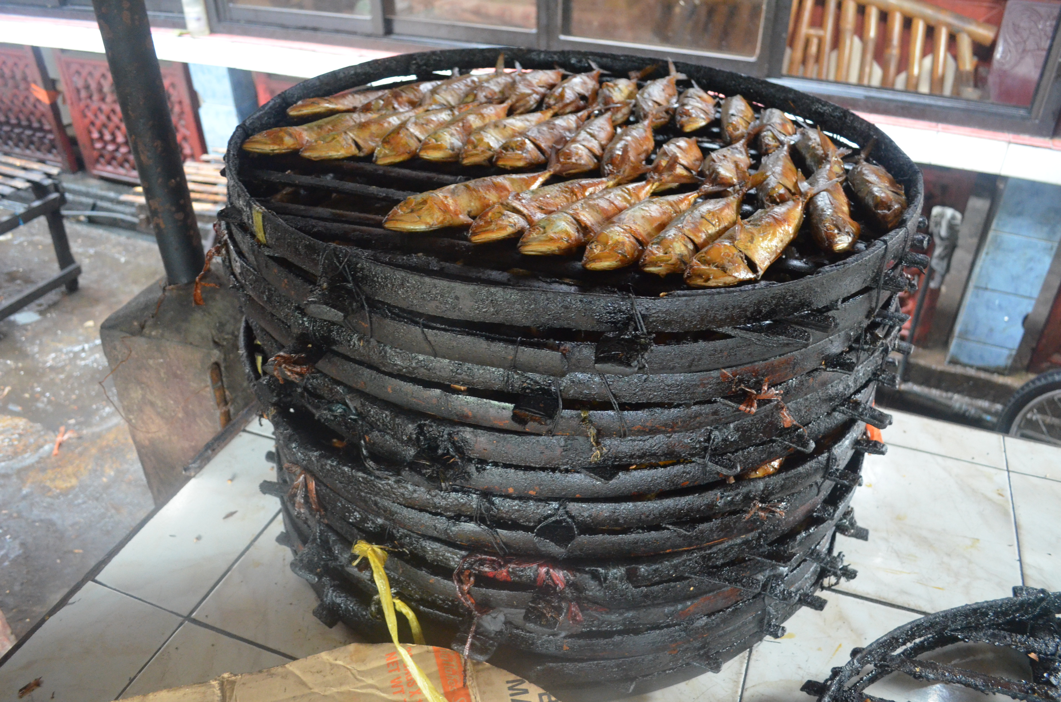 Tinapa being steamed at a store in Calbayog City